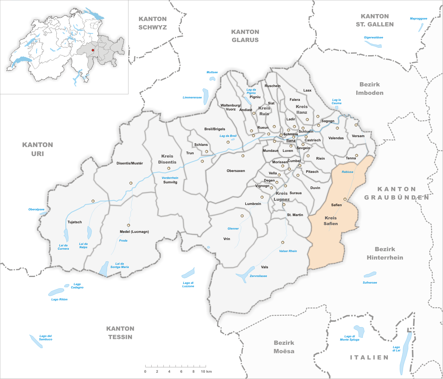 Municipality Safien